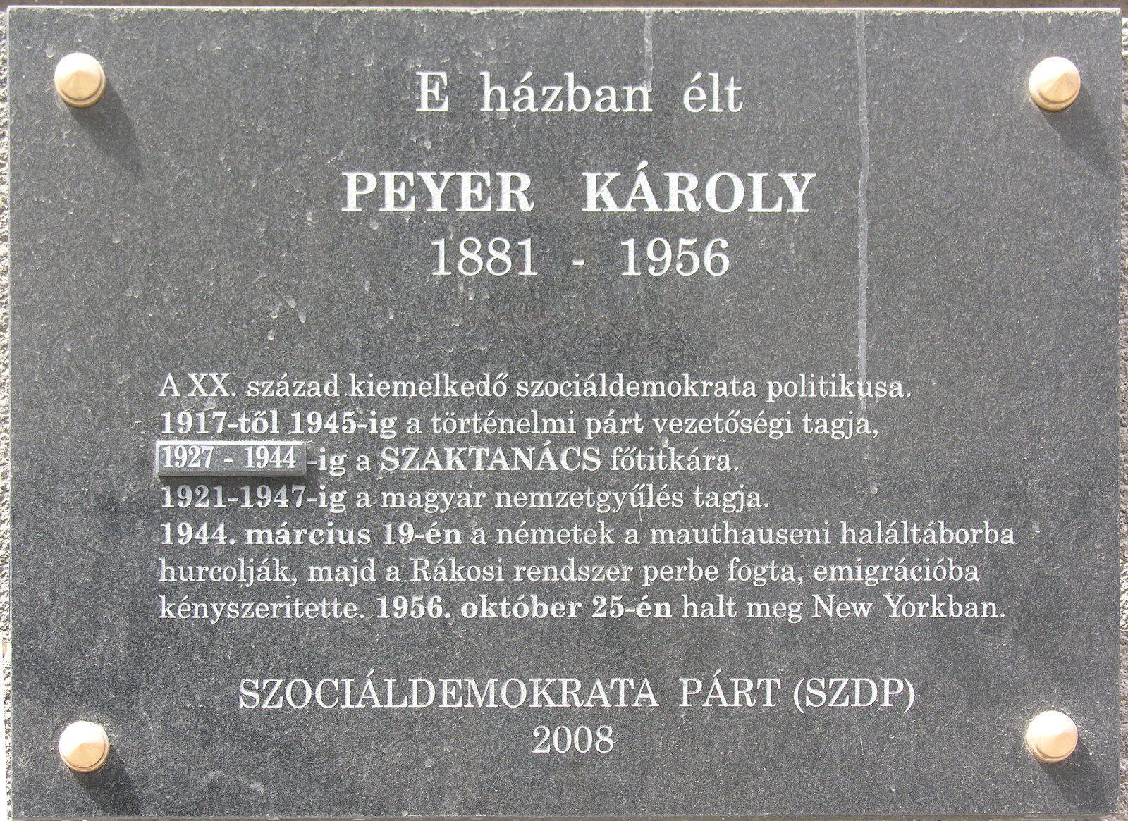 Commemorative plaque of Károly Peyer in Budapest District XIII, Tátra Street 20/b